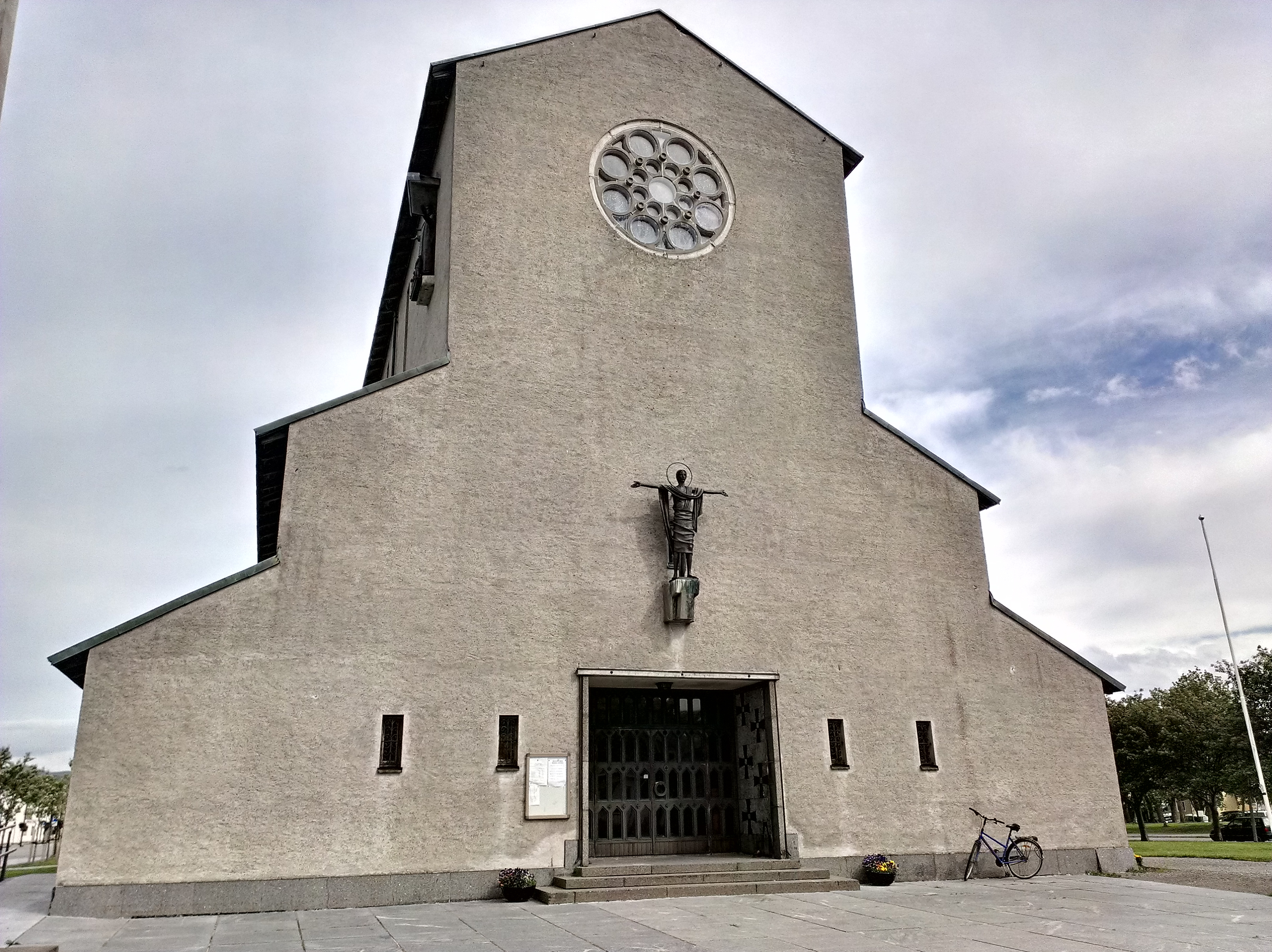 Bodø Cathedral in Nordland, Norway